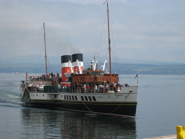 "Waverley" arriving at Dunoon Pier The last seagoing paddlesteamer in the world, "Waverley", still runs cruises on the Firth of Clyde. She celebrated her Diamond Jubilee in 2007.